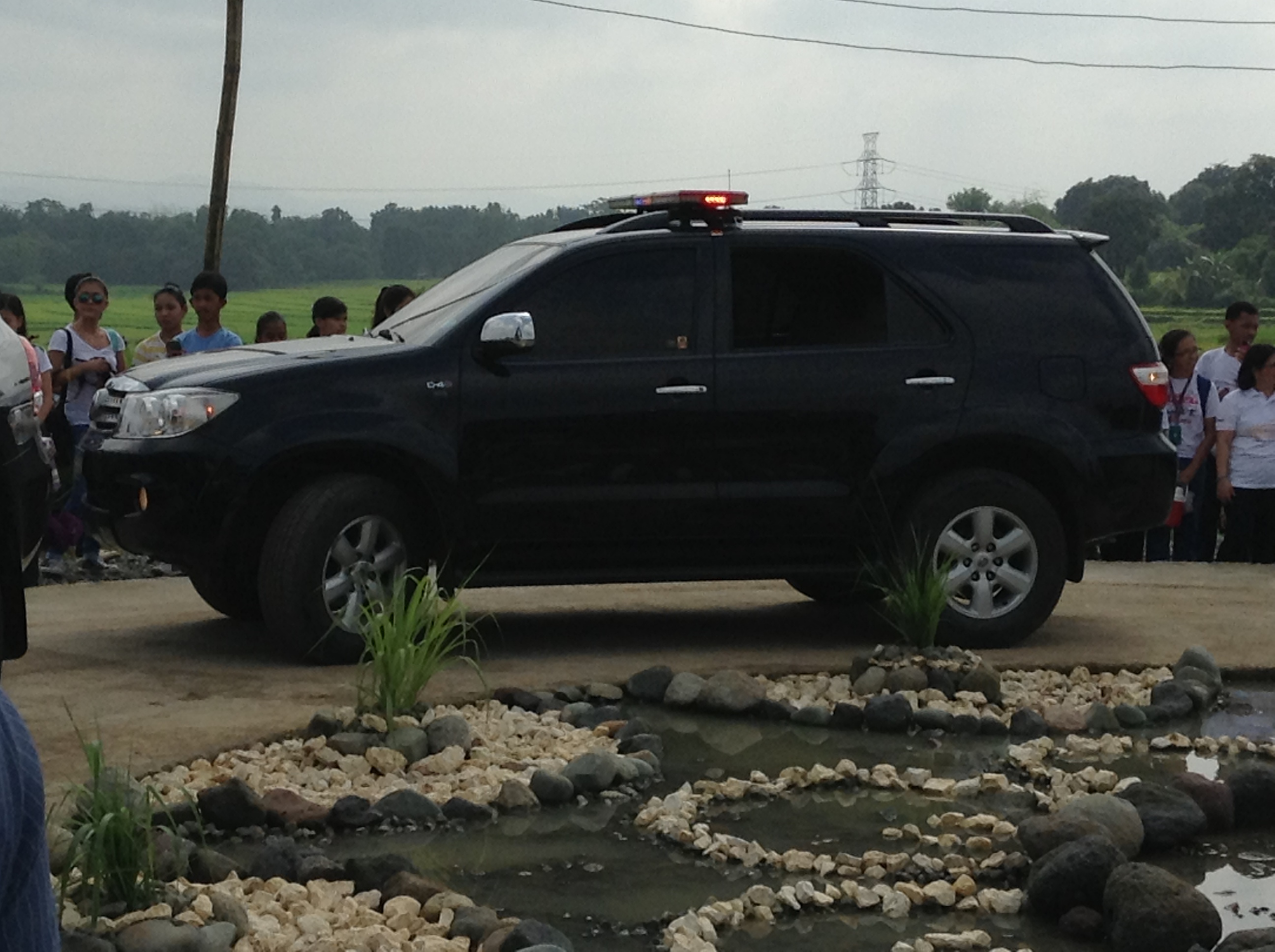 An unmarked Toyota Fortuner belonging to the Presidential Security Group in the convoy of Vice President Jejomar Binay at Gawad Kalinga's Enchanted Farm in Angat, Bulacan.